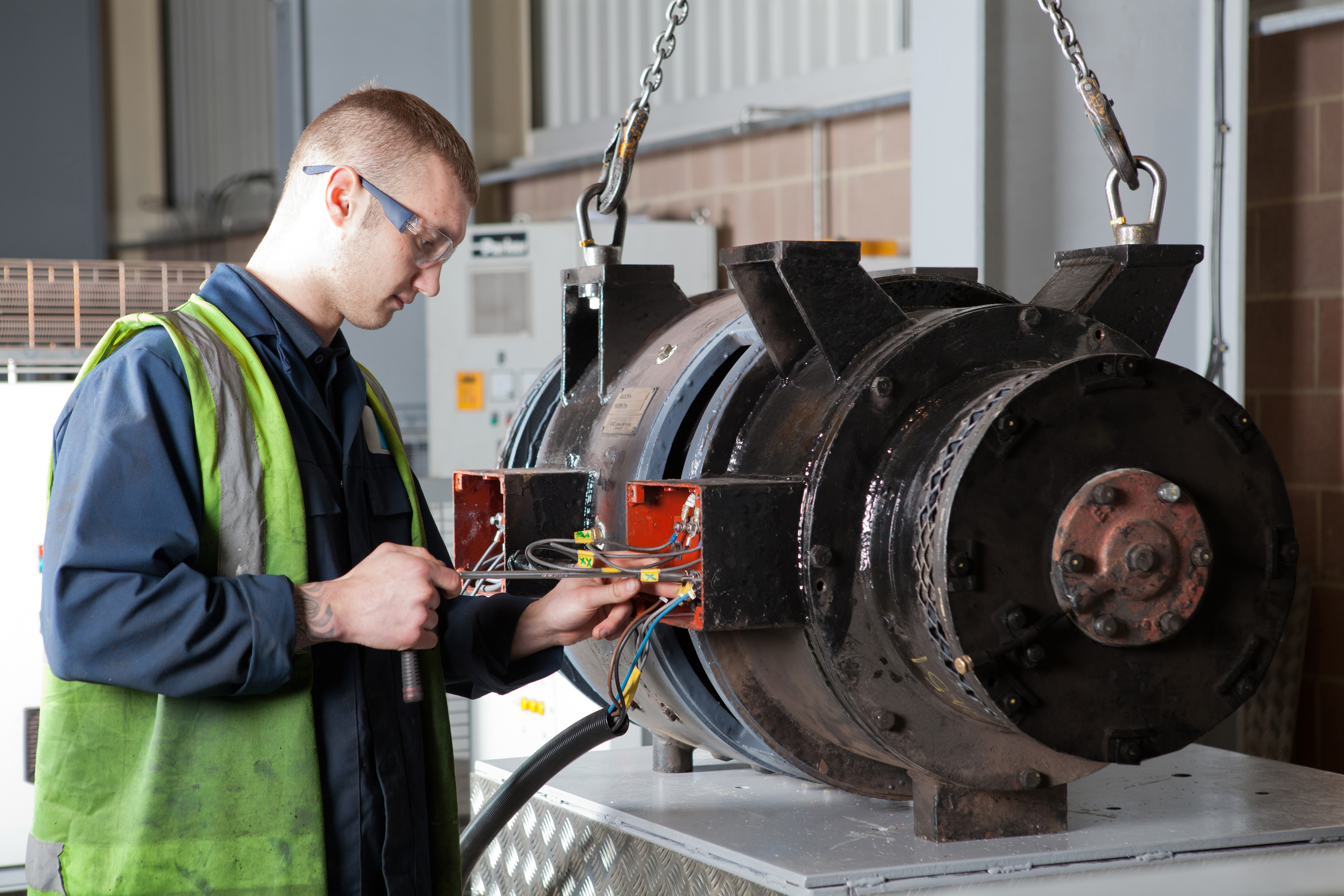 Houghton International - Motor Alternator (MA) Repair